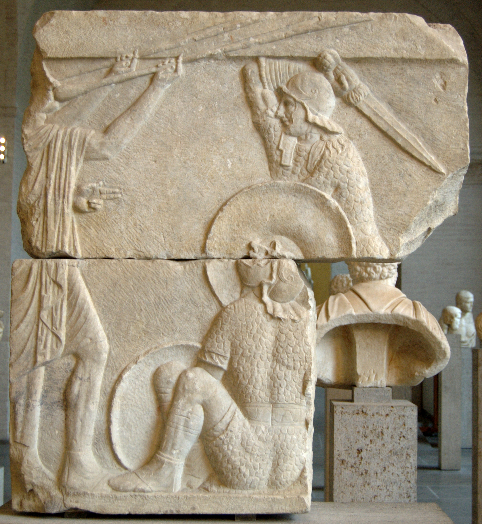 Relief with a scene of gladiator fight, perhaps part of a funerary monument, 1st century BC. Two trumpet players proclaim the victory of the duel. The winner raises his sword and awaits the verdict of the spectators, who decide life or death for the loser.